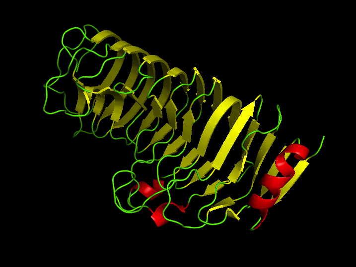 Structure of Polygalacturonase